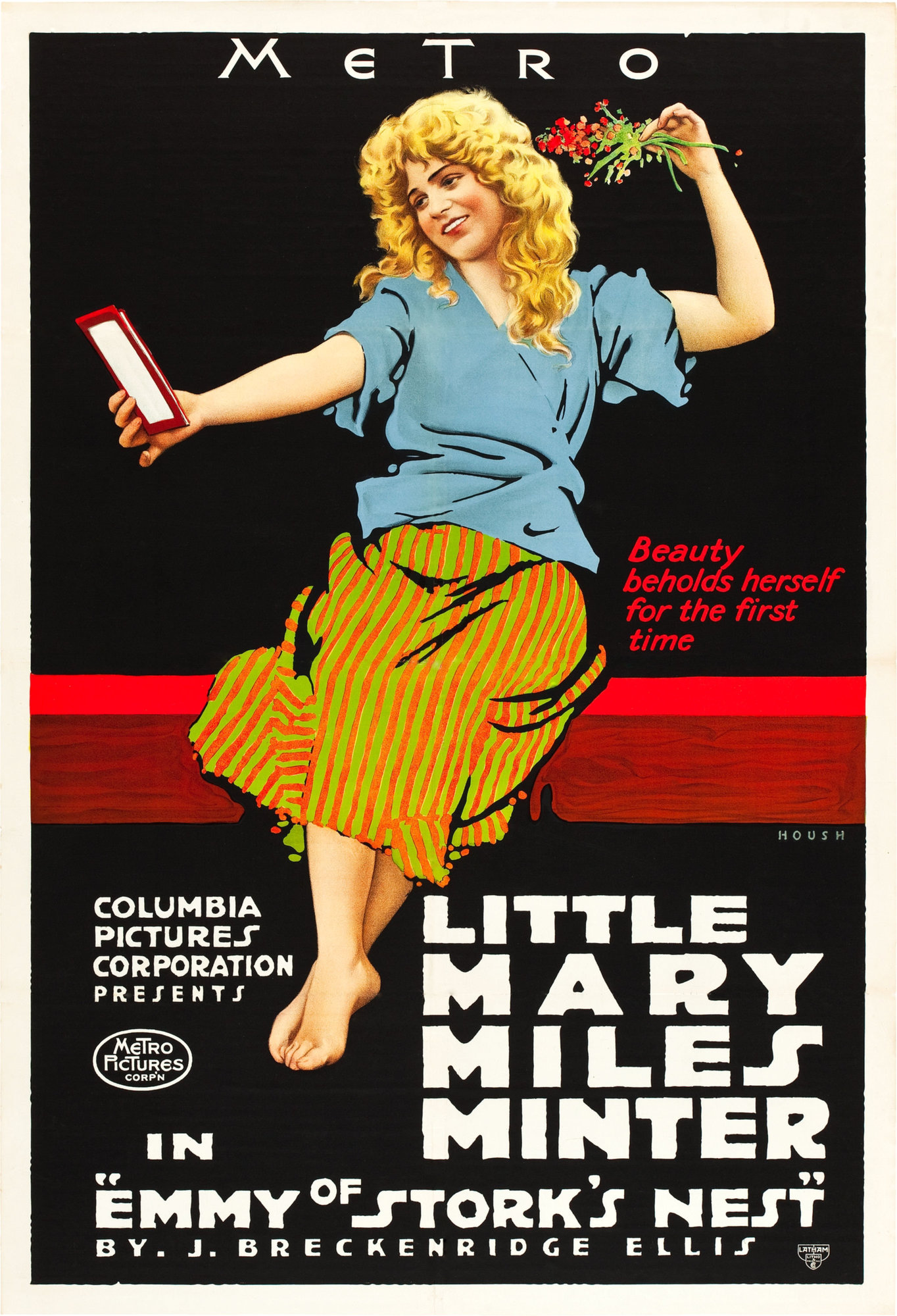 Poster for the 1915 film Emmy of Stork's Nest.